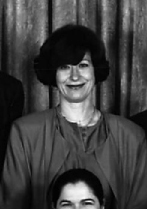 1992 Byzantine Studies Symposium Group at Dumbarton Oaks. Back row (standing) from left to right: Henry Maguire, Ioli Kalavrezou, Gilbert Dagron, Marie-Theres Fogen, J.H.A. Lokin, Angeliki E. Laiou, Dr. Paul Magdalino, Ruth Macrides, George T. Dennis Front row (seated) from left to right: Anna Kartsonis, Aleksandr Kazhdan, Dieter Simon, Kathleen Anne Corrigan, Ioannes M. Konidares, Helen Saradi-Mendelovici